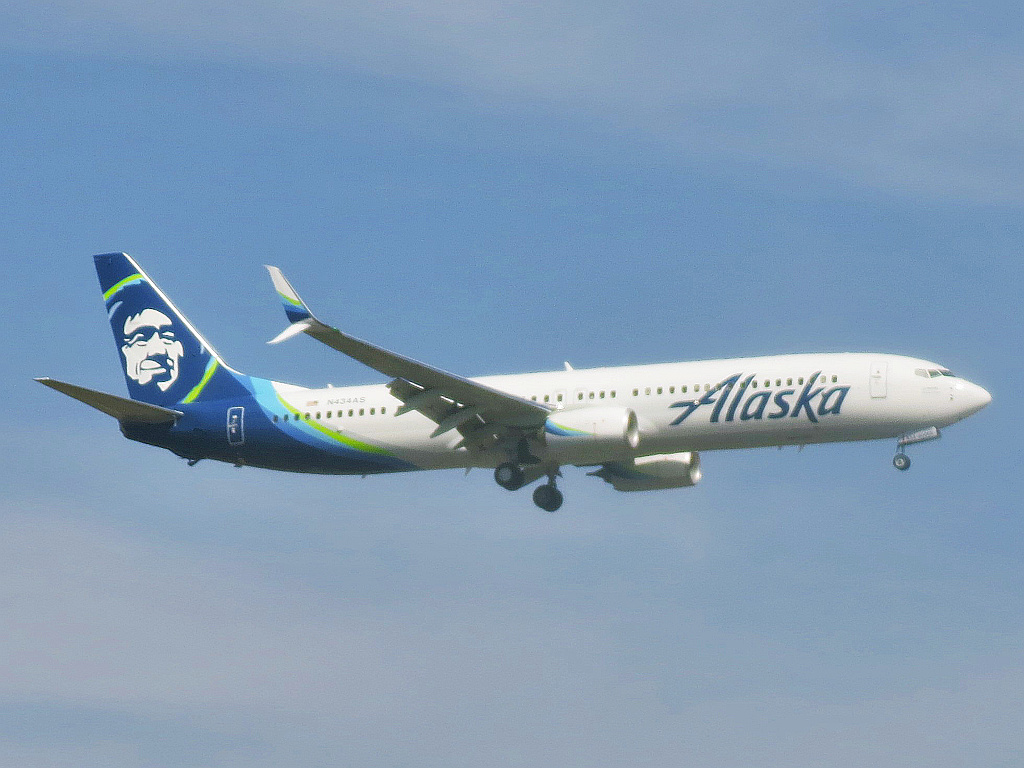 An Alaska Airlines Boeing 737-900ER performing Flight AS8 is on final approach to Newark Liberty International Airport's Runway 22L.